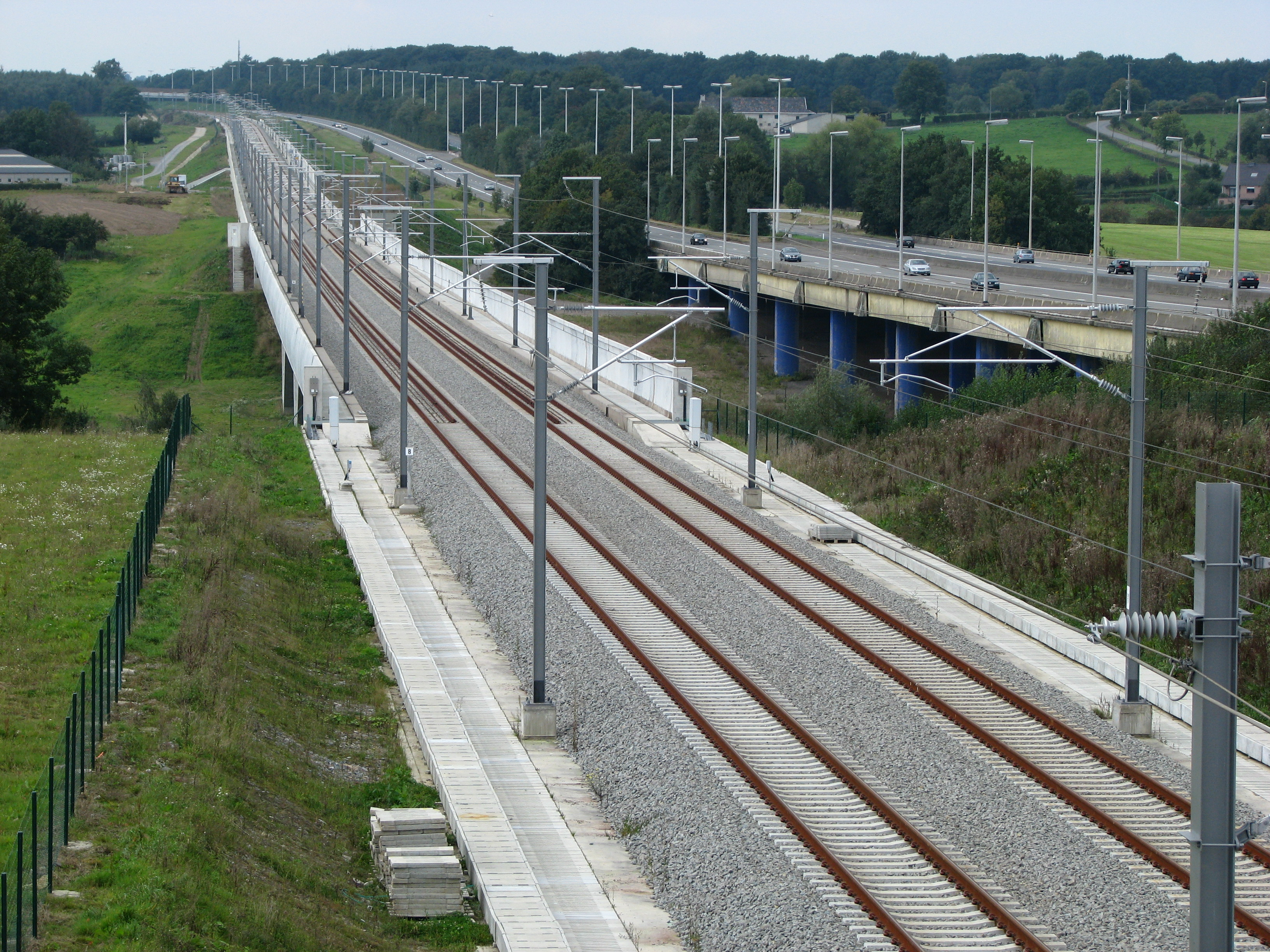 Ruyff Valley Viaduct, Belgium, Highspeedline 3 between Aachen and Liège.